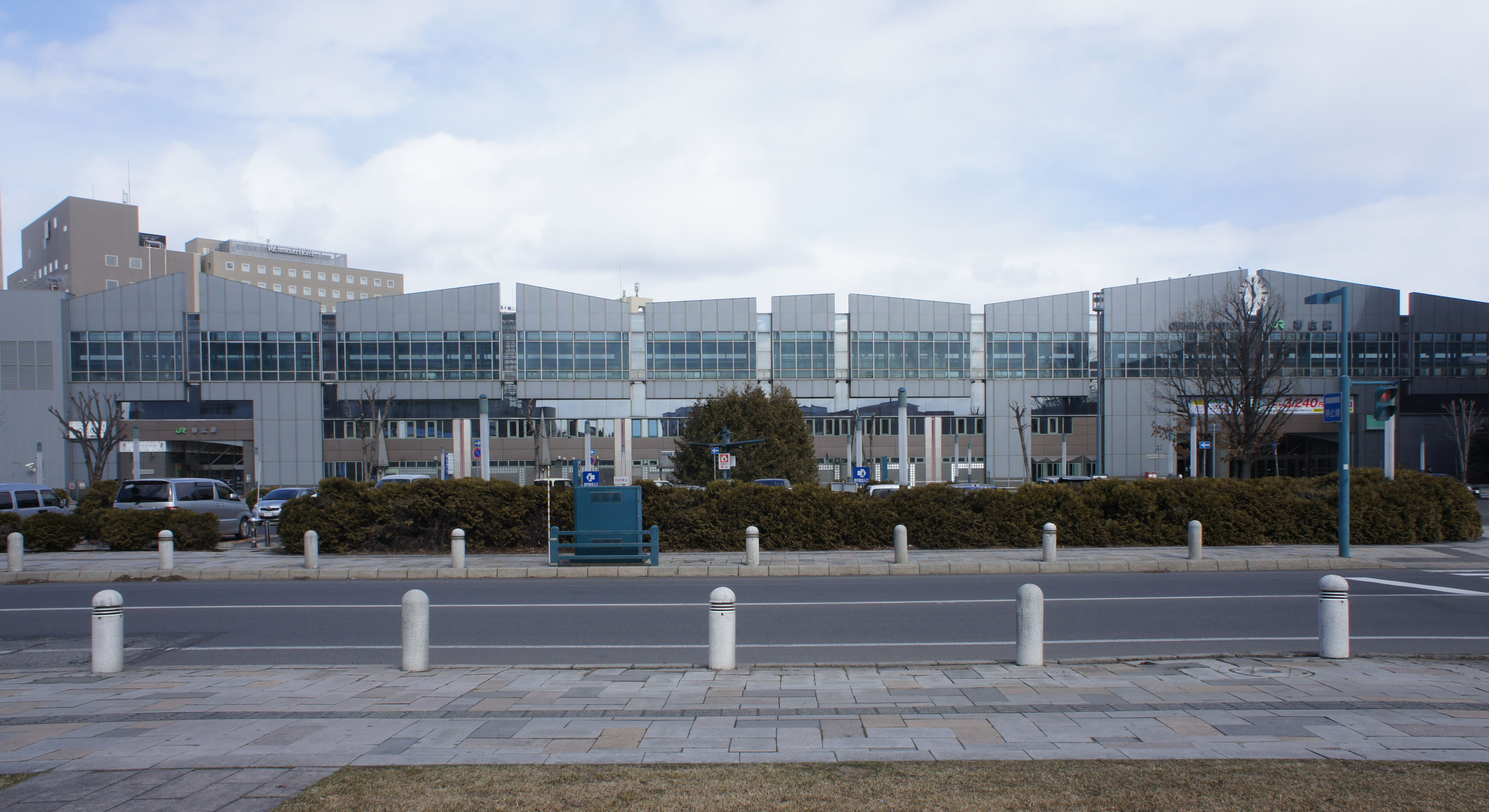 South Exit of JR Nemuro-Main-Line Obihiro Station Sony NEX-3 + E 18-55mm F3.5-5.6 OSS